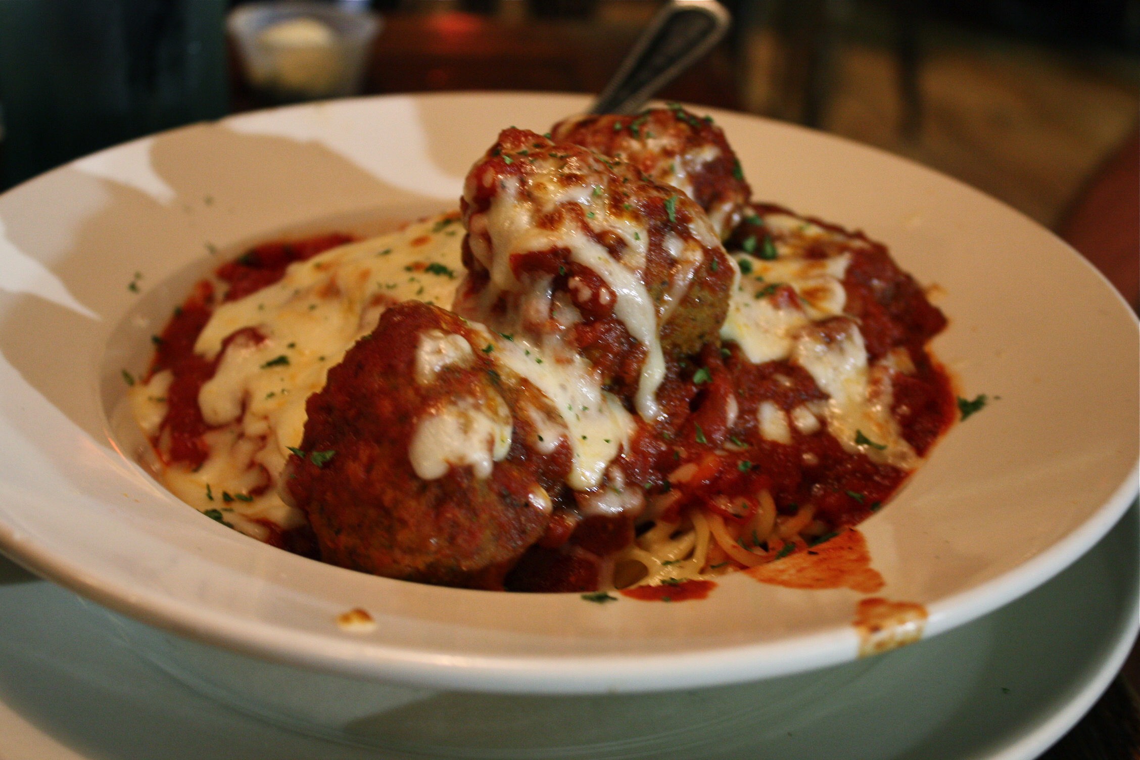 Currently under renovation, but there were still plenty of cool things to see.